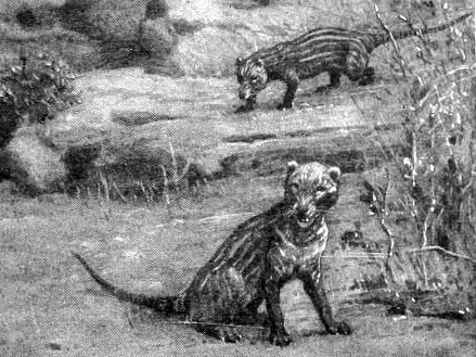 Life restoration of Borhyaena tuberata from W.B. Scott's "A History of Land Mammals in the Western Hemisphere." New York: The Macmillan Company.